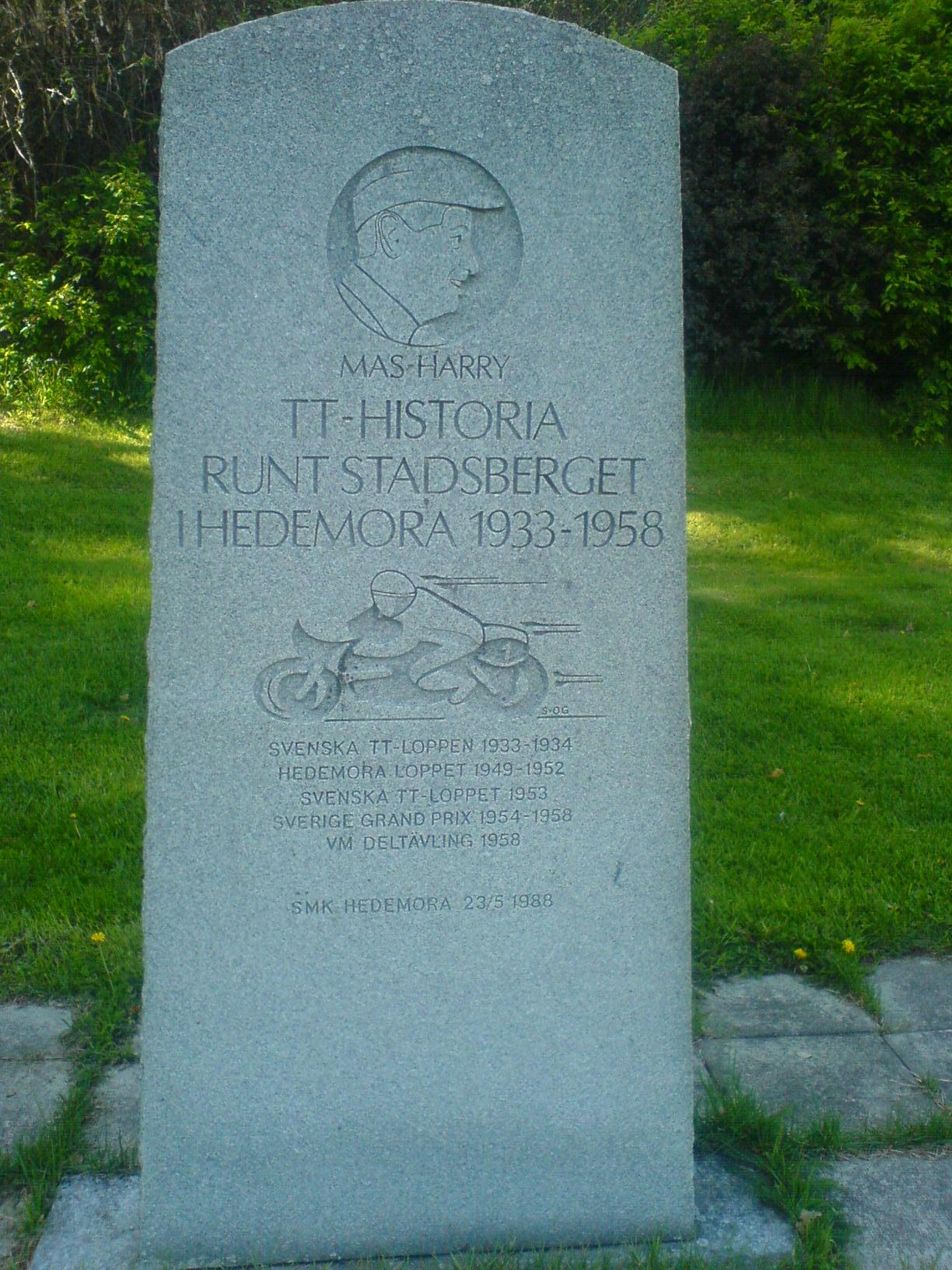 TT-race memorial. Hedemora, Sweden